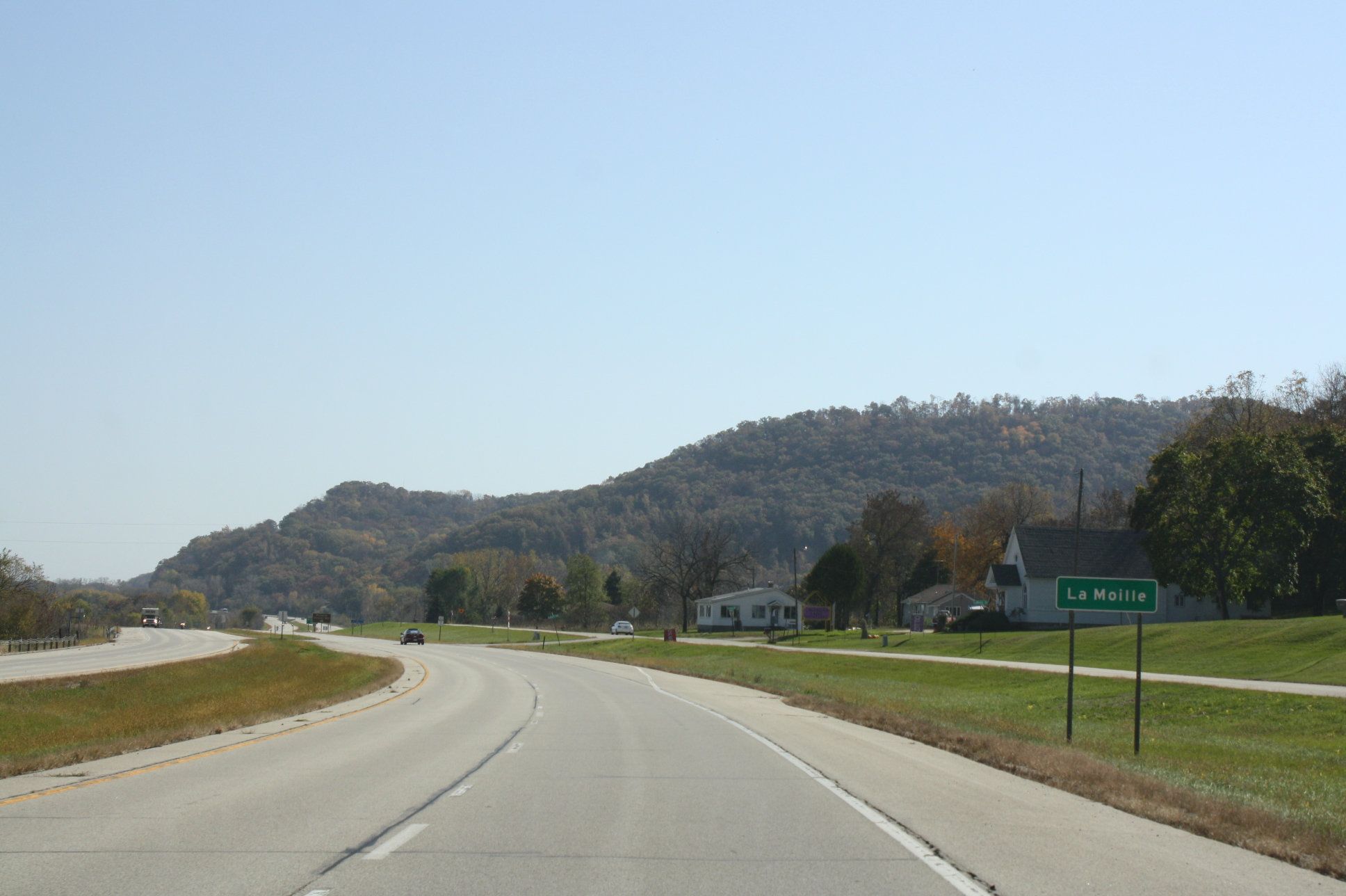 Looking south at La Moille, Minnesota while traveling on U.S. Route 14 / U.S. Route 61.